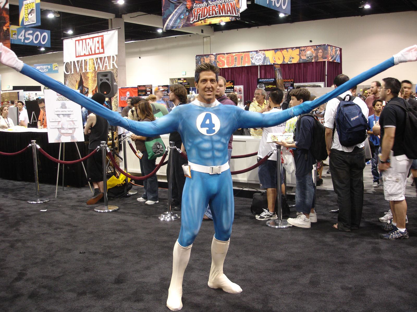 Comic-Con 2006 - Mr Fantastic